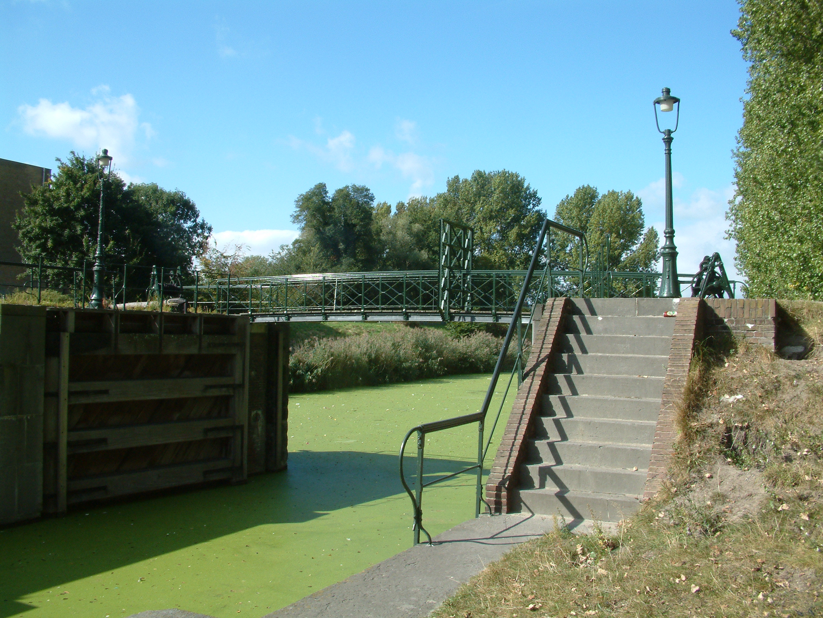 Canal lock in the Afvoer- of Verversingskanaal in The Hague